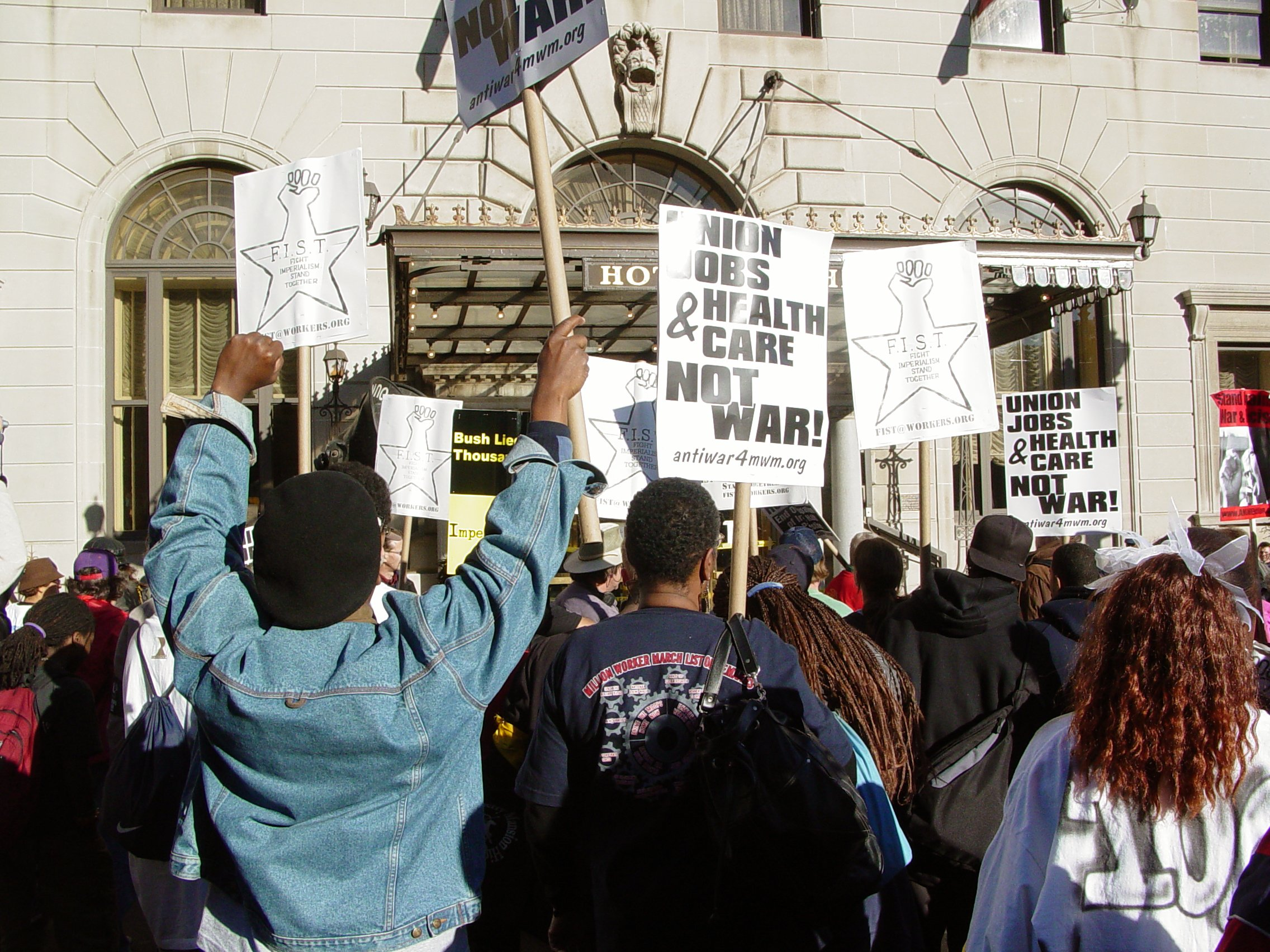 Demonstrators gather outside the Hotel Washington at the end of a march, as part of the Million Worker March.